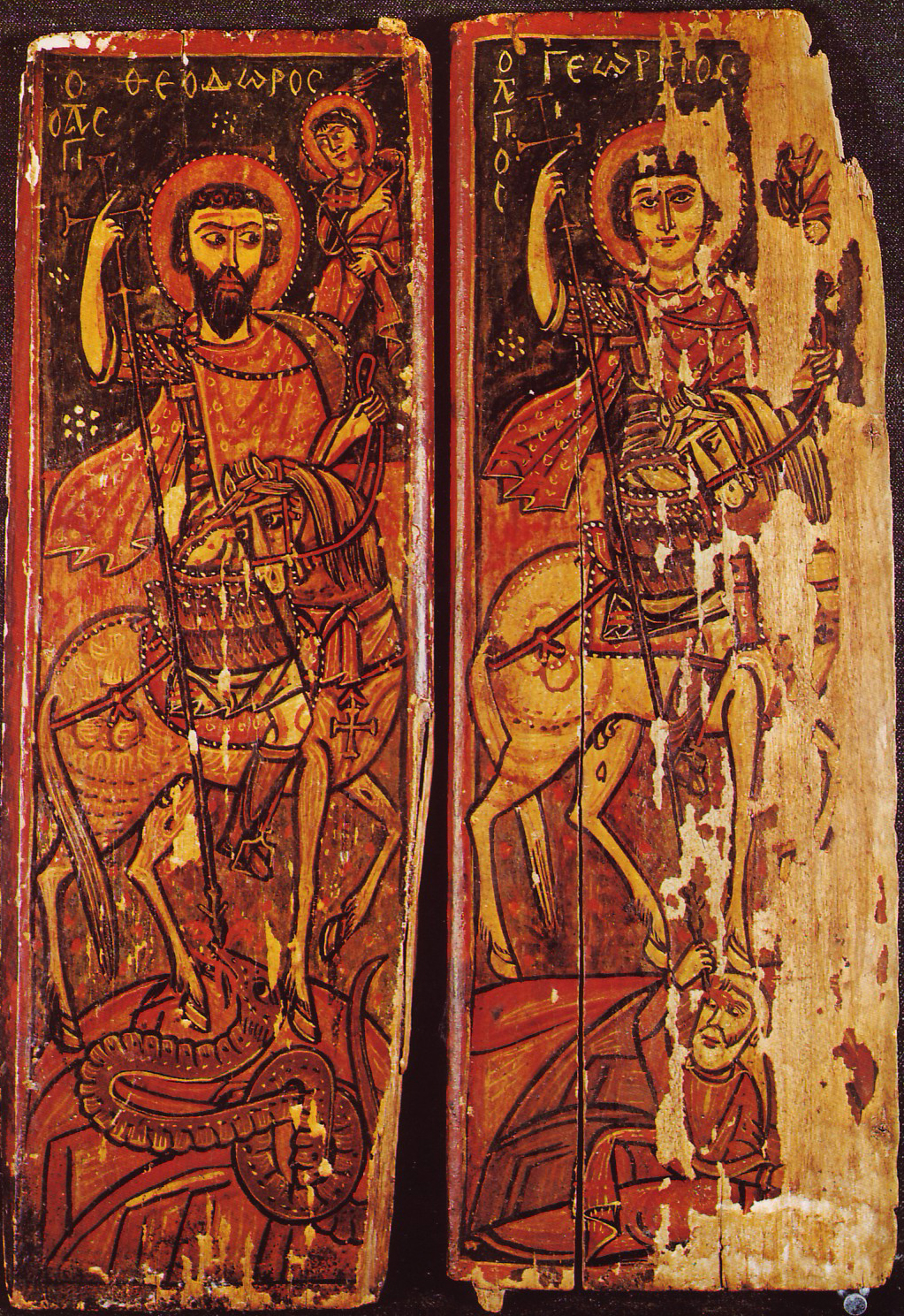 The warrior-saints Theodor of Amasea and George mounted, conquering their enemies. Two wings of a triptych, 9th or 10th century, encaustic on panel, 38.6 x 13 cm (left panel); 38.6 x 13.5 cm (right panel), created at or around Sinai, "with Georgian influences".[1]